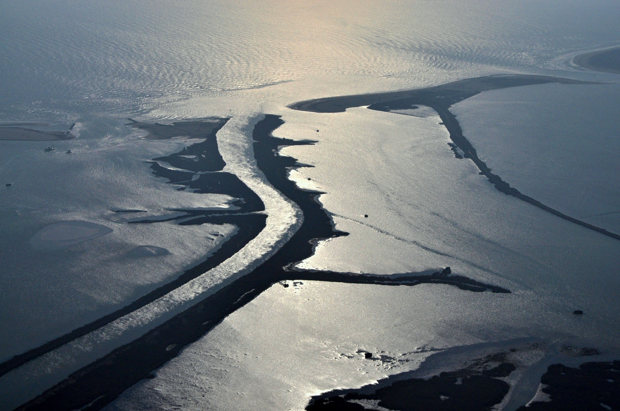 Delta of the Po river near the hamlet of Bonelli, in the municipality of Porto Tolle, Province of Rovigo, Veneto, Italy